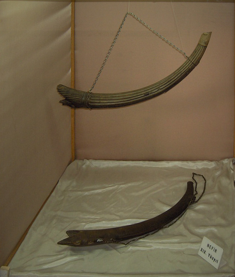 Nefir, a cow's horn, used by dervishes when they approached a village; Mevlâna museum; Konya, Turkey